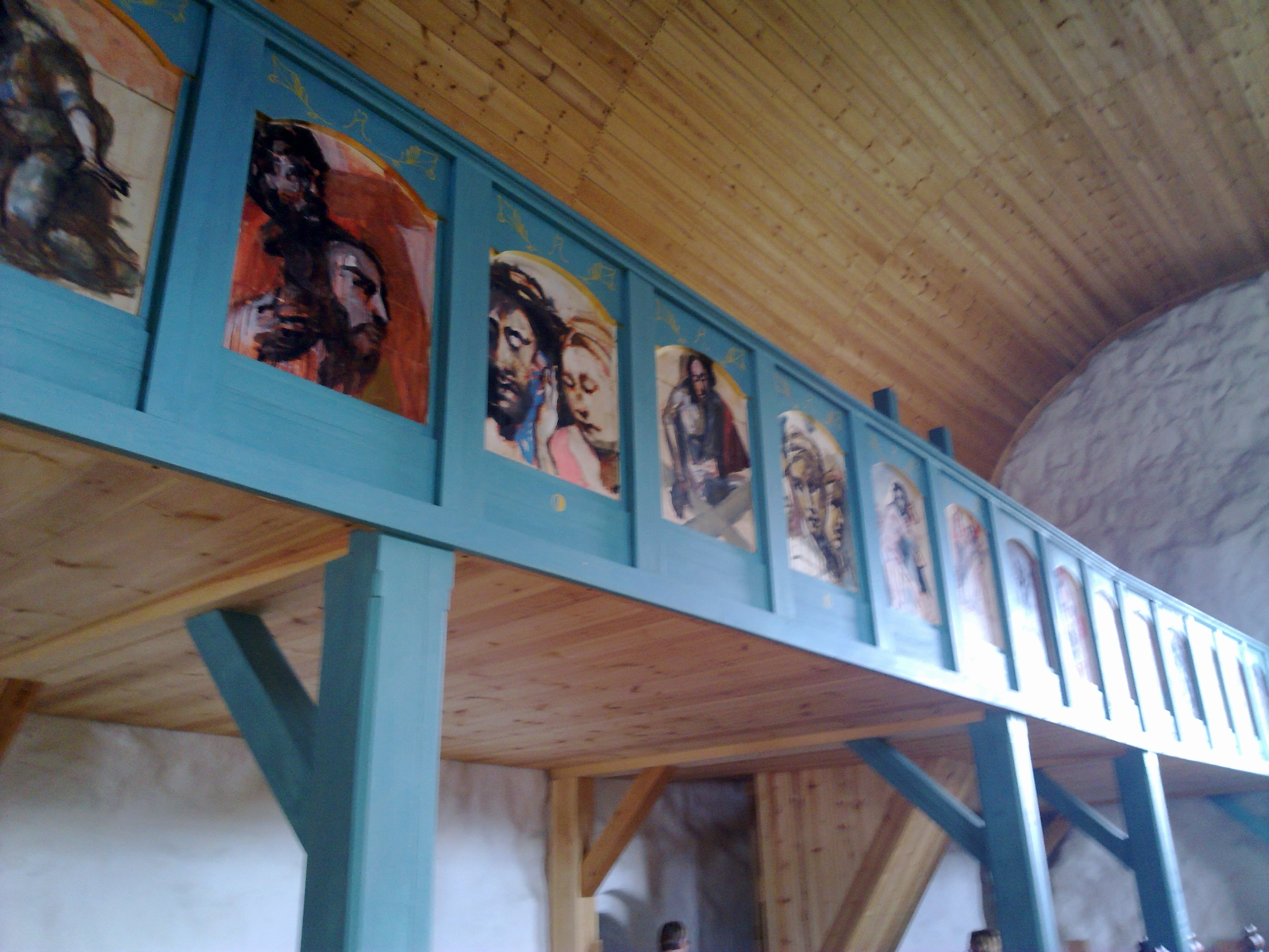 St Olaf's church in Tyrvää, Sastamala, Finland. New interior in summer 2010